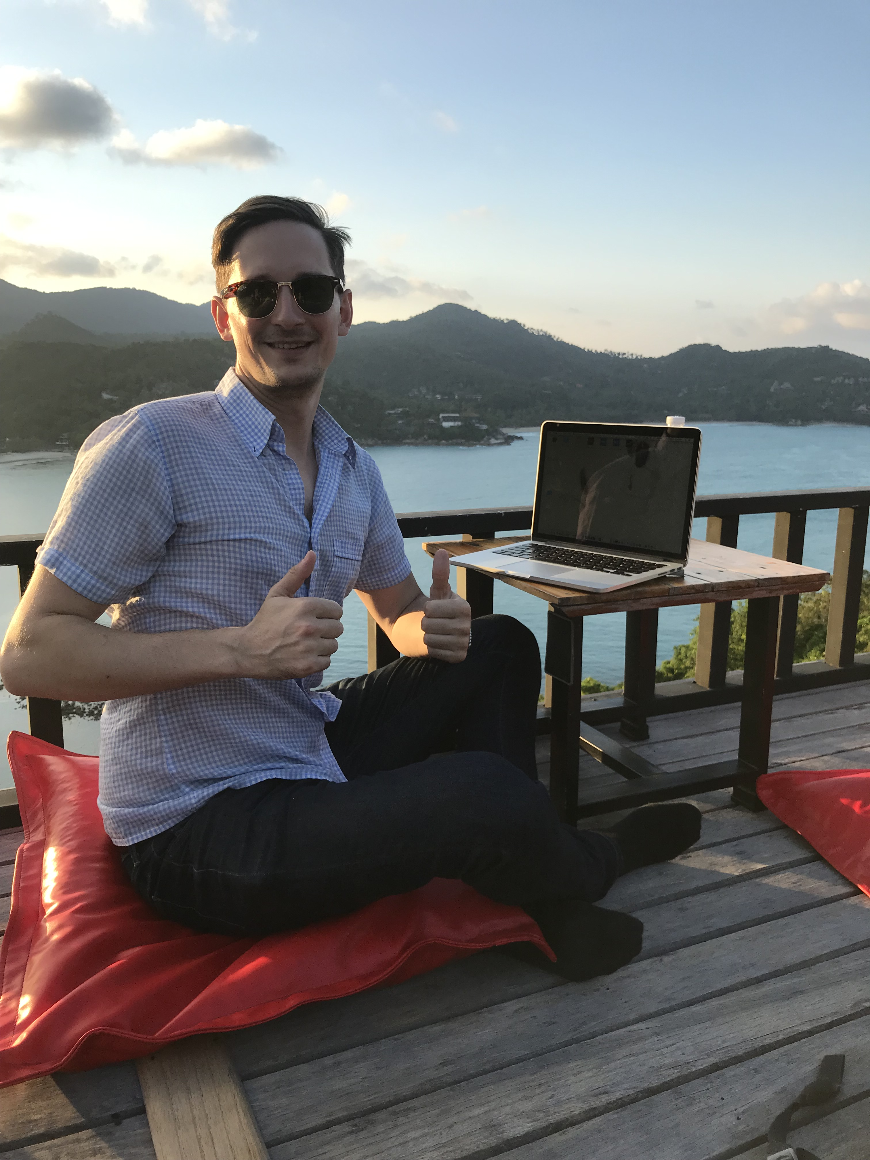 Digital nomad working from Thailand.